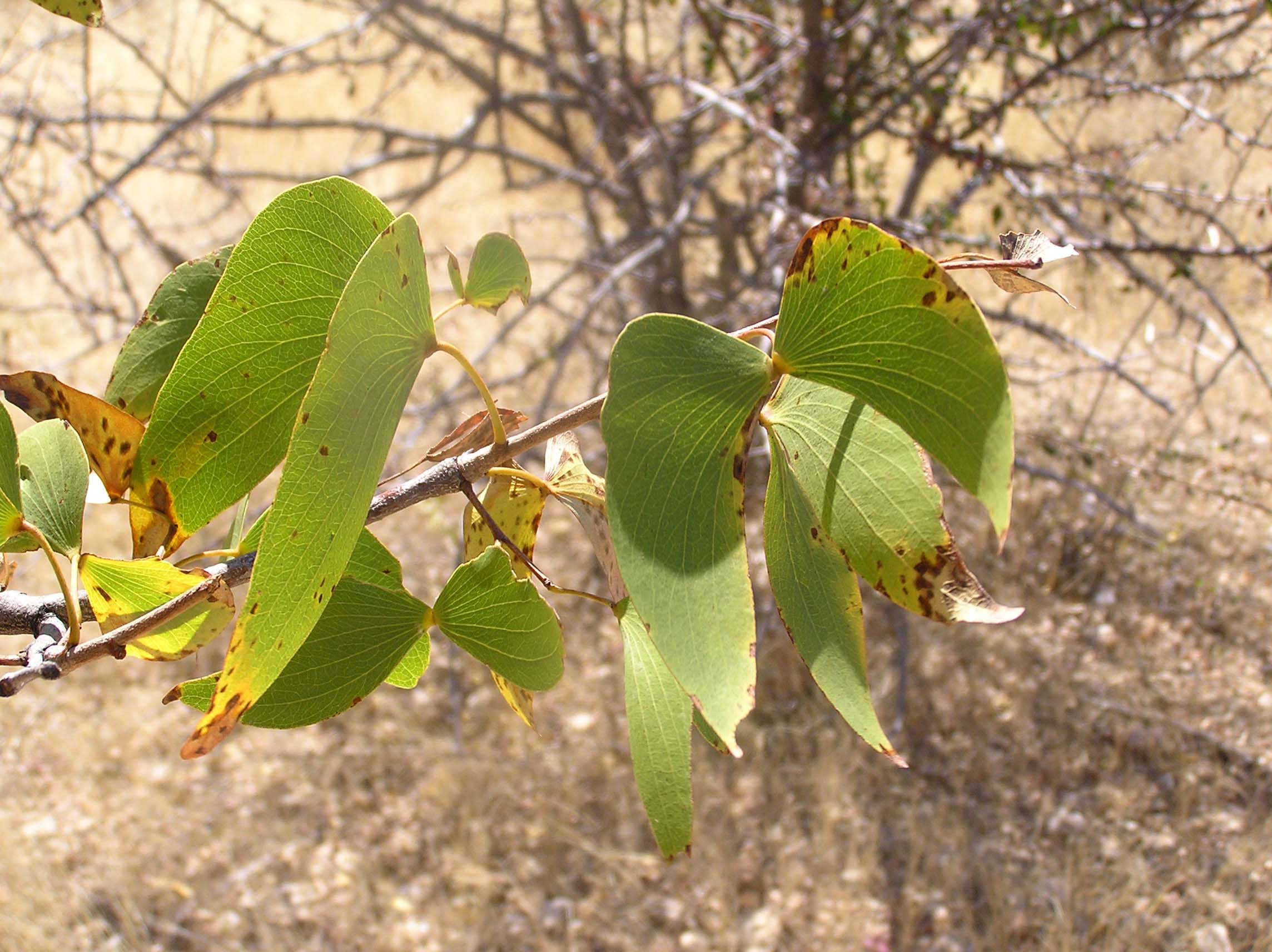 Leaves of mopane (also known as balsam tree; Colophospermum mopane)